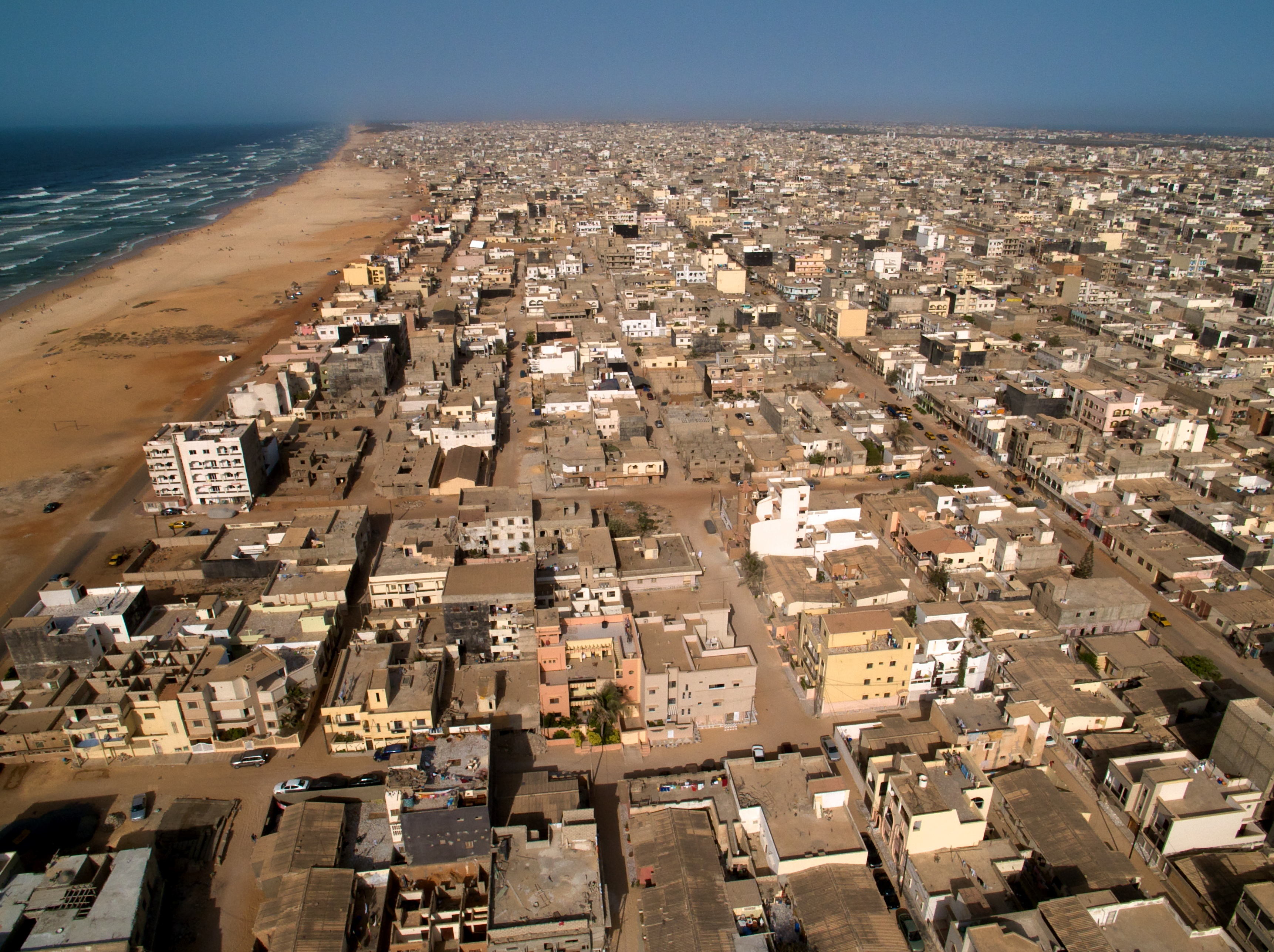 Image was captured by a camera suspended by a kite line. Kite Aerial Photography (KAP) 7' Rok